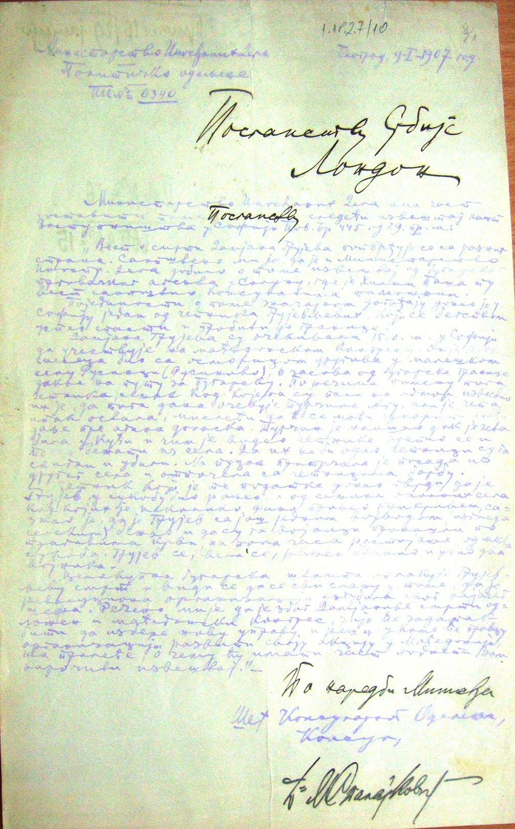 Serbian report on the death of Dame Gruev, as reported by one of his regiment who had managed to save. (January 9, 1907) This media file is produced by Wikipedian in Residence in Category:Wikipedian in Residence at DARM in 2016.